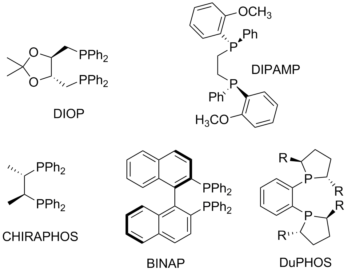 Asymmetric hydrogenation ligands